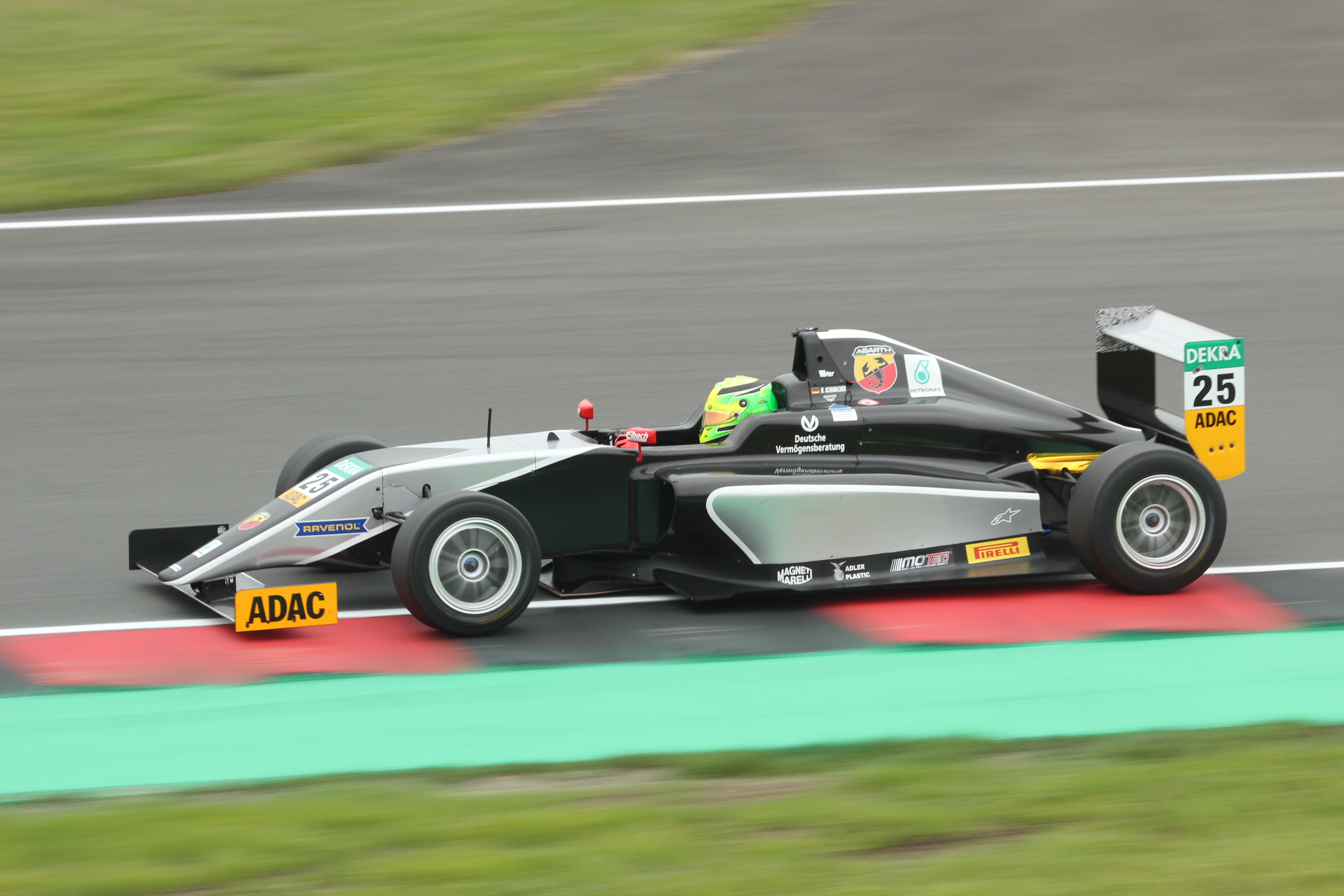 Mike Schumacher at Oschersleben in 2015, German Formula 4 Championship